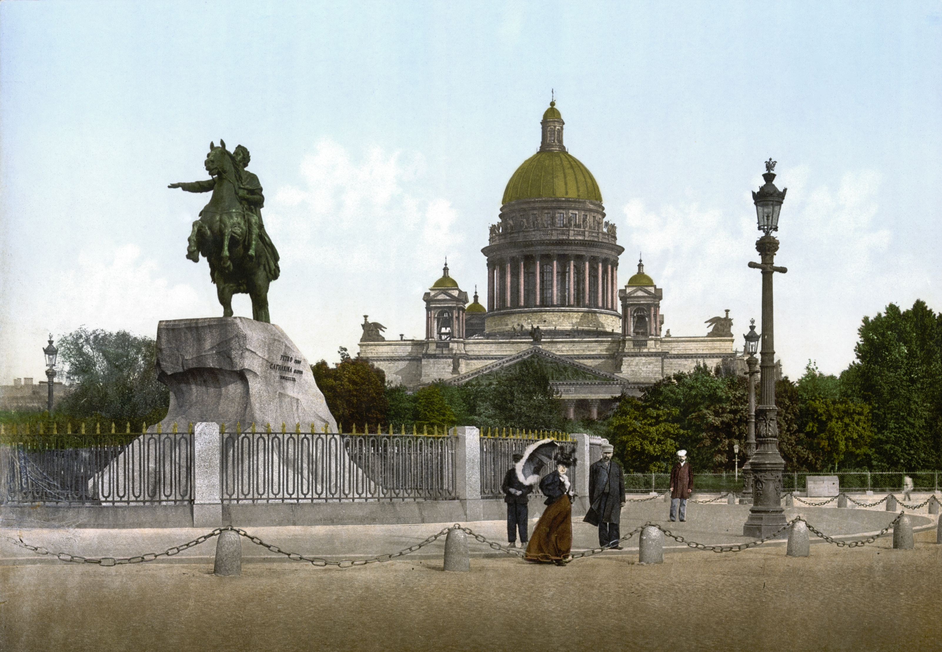 Saint Petersburg (Russia), Senate Square. The Bronze Horseman and St Isaac's Cathedral. 19th-century photochrome print (1890—1900)